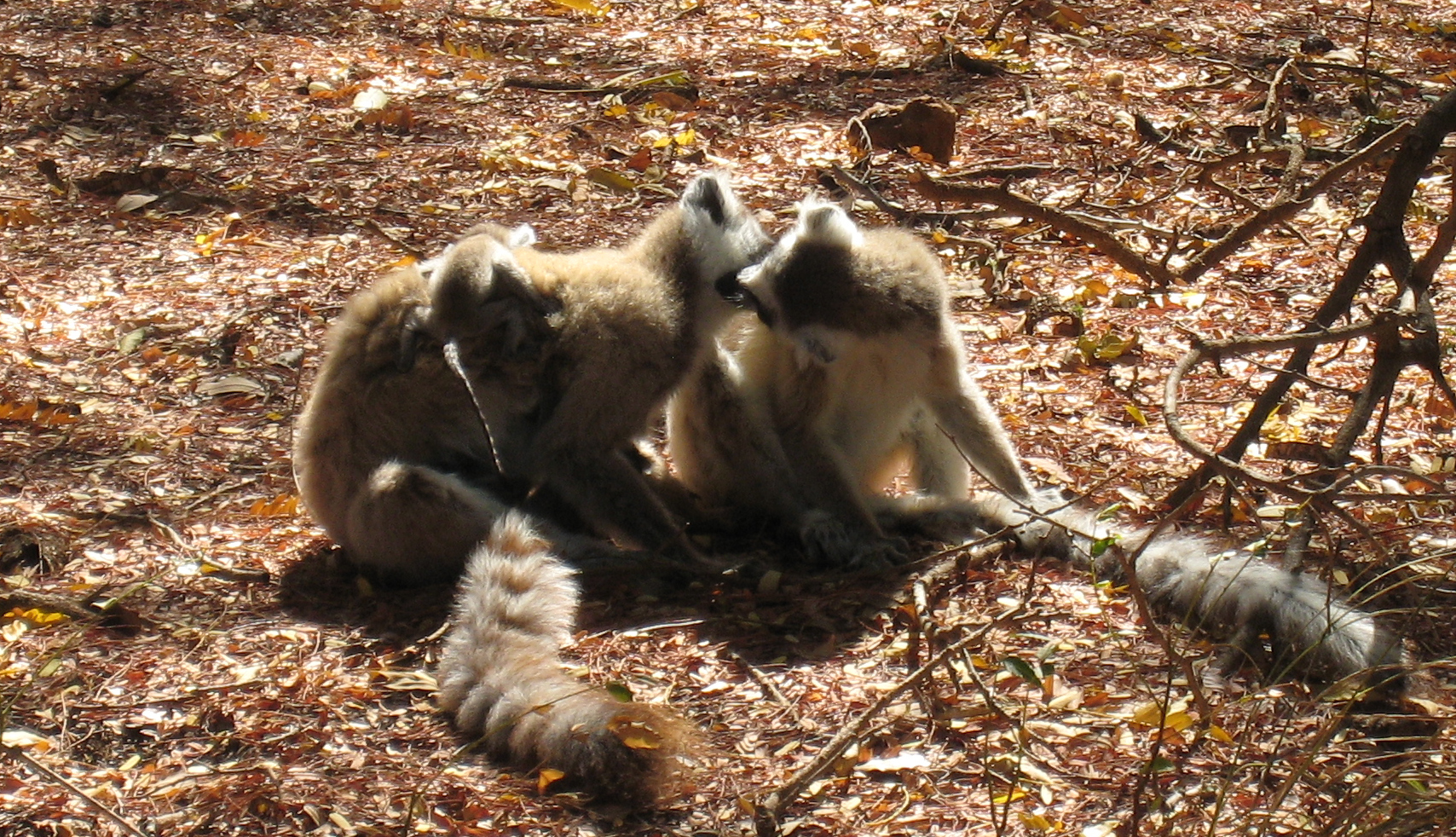 Social grooming by Ring-tailed Lemurs (Lemur catta) at Berenty in Madagascar